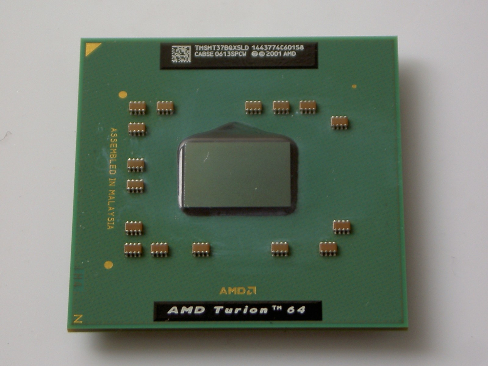 AMD Turion64 Processer MT-37